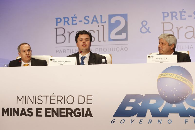 ANP conducts a Pre-Salt Block Sharing auction.